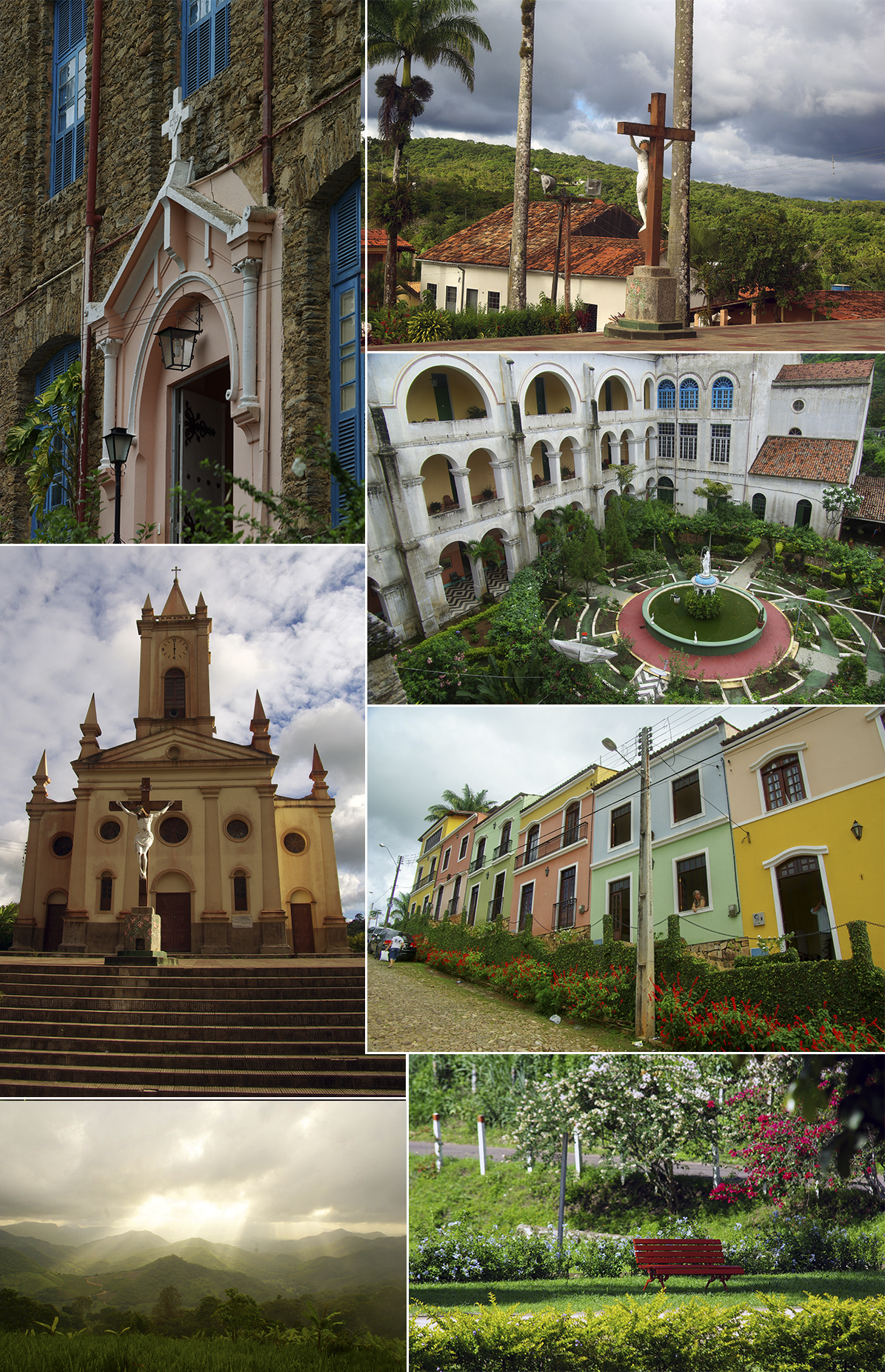 Montage of Guaramiranga.